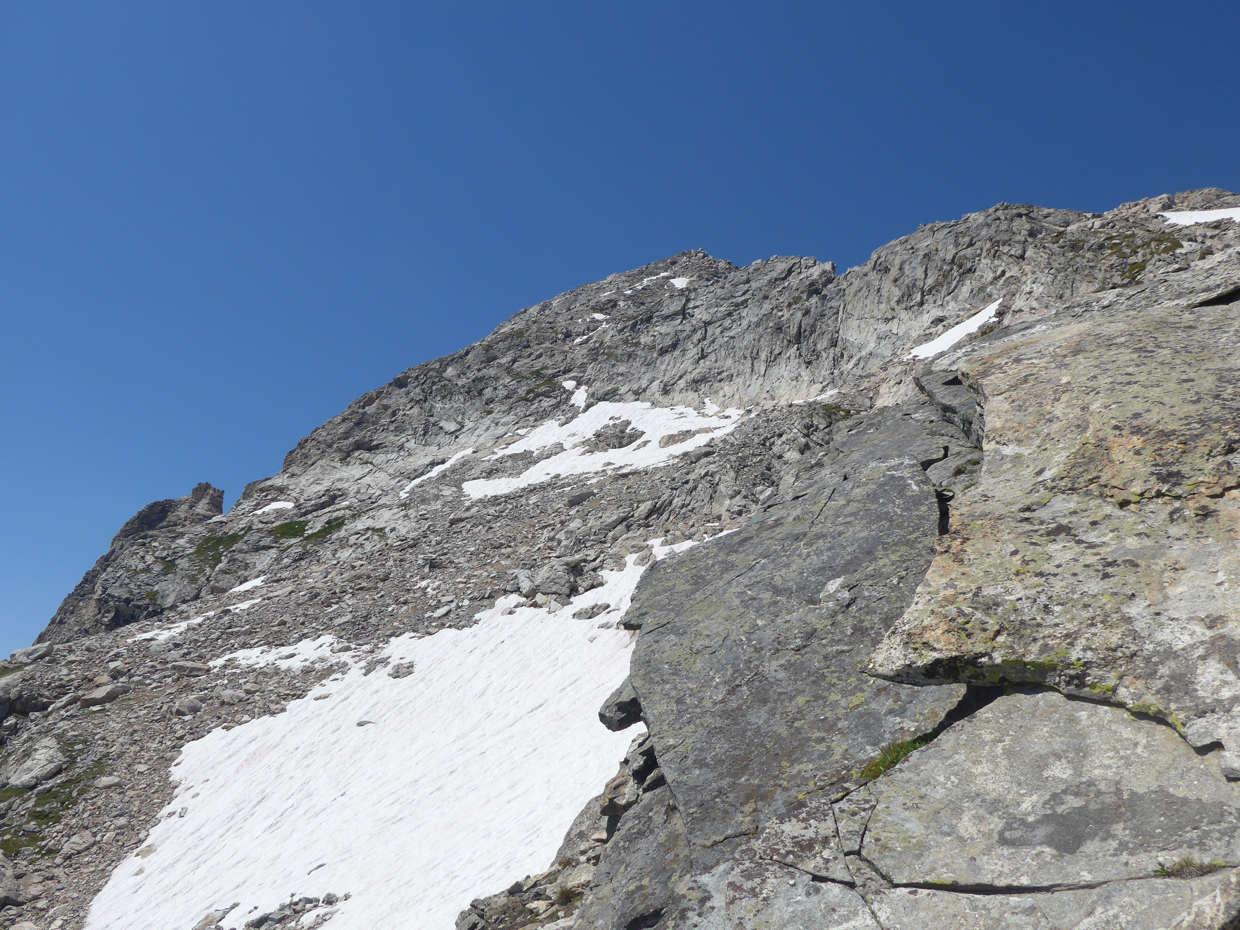 East face of Buck mountain from beginn of east ridge